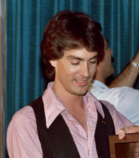 1982 San Diego Comic-Con, American illustrator and comic artist Dave Stevens at Inkpot Awards ceremony. depicted person: Dave Stevens (age: 26)